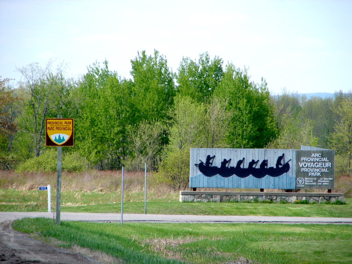 Voyageur Provincial Park, East Hawkesbury, Ontario, Canada